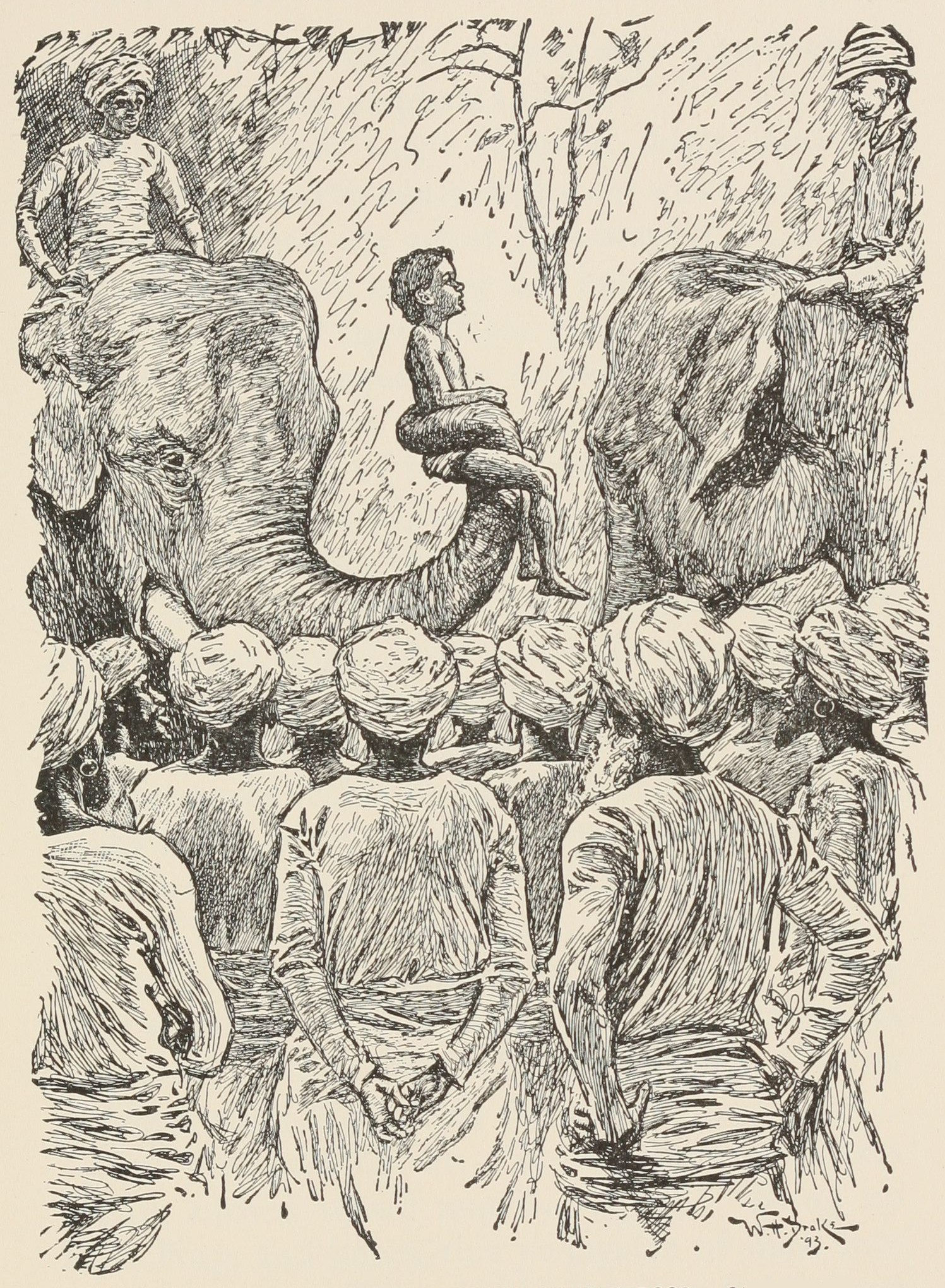 "'Not green corn, protector of the poor,-melons,' said little Toomai"